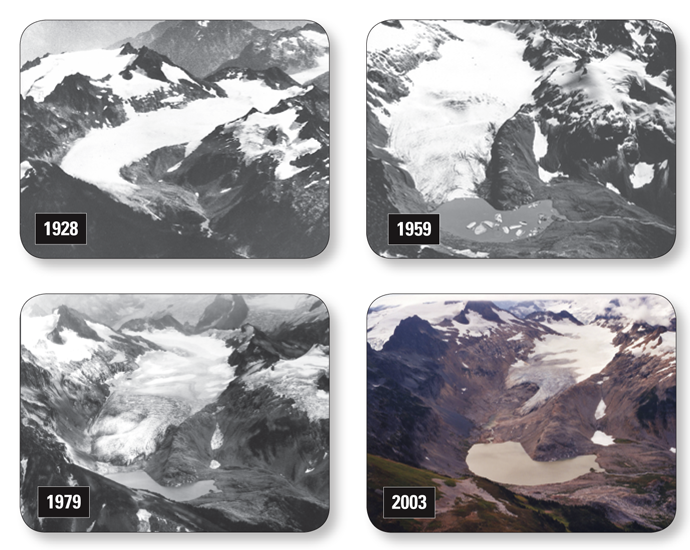 By looking at this photo we can see how quickly the glaciers are retreating in the modern world. This kind of retreating is the result of climate change which has significantly increased due to human impacts.